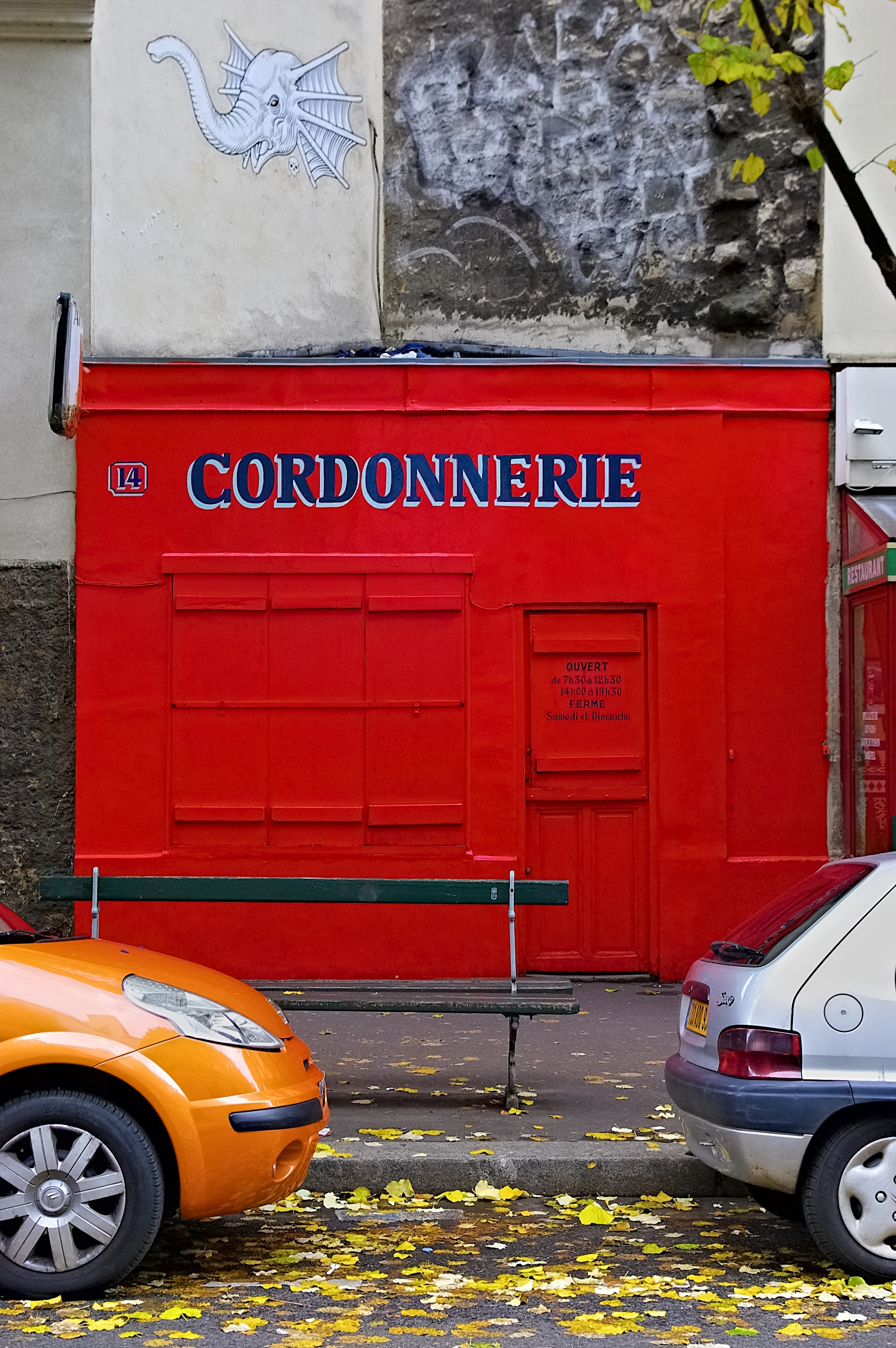 Traditional shoemaker's shop, 14 rue Bobillot, Paris, France.